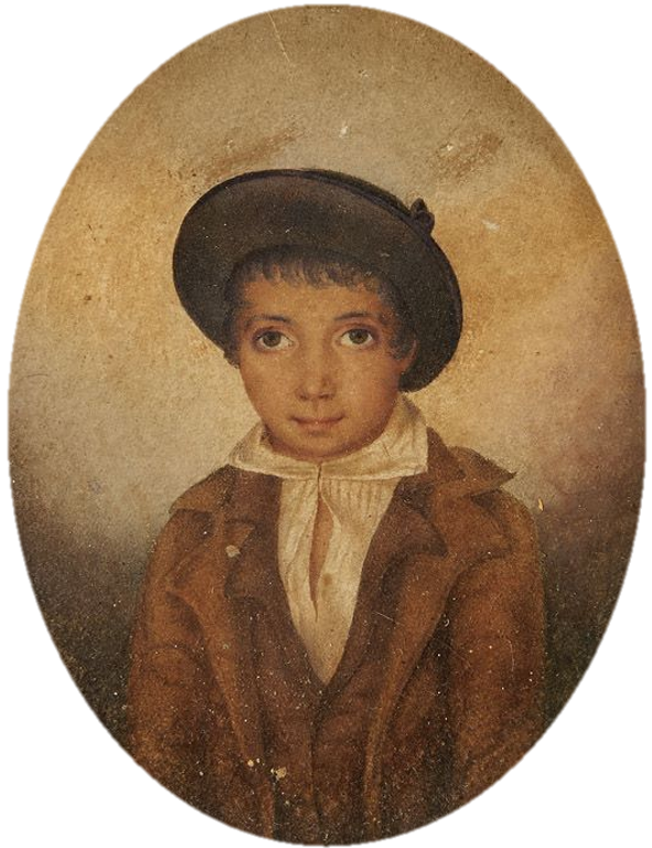 Portrait of Anselmo Braamcamp Freire (1849-1921) as a child, by his mother, the Baroness of Almeirim, D. Luísa Maria Joana Braamcamp.